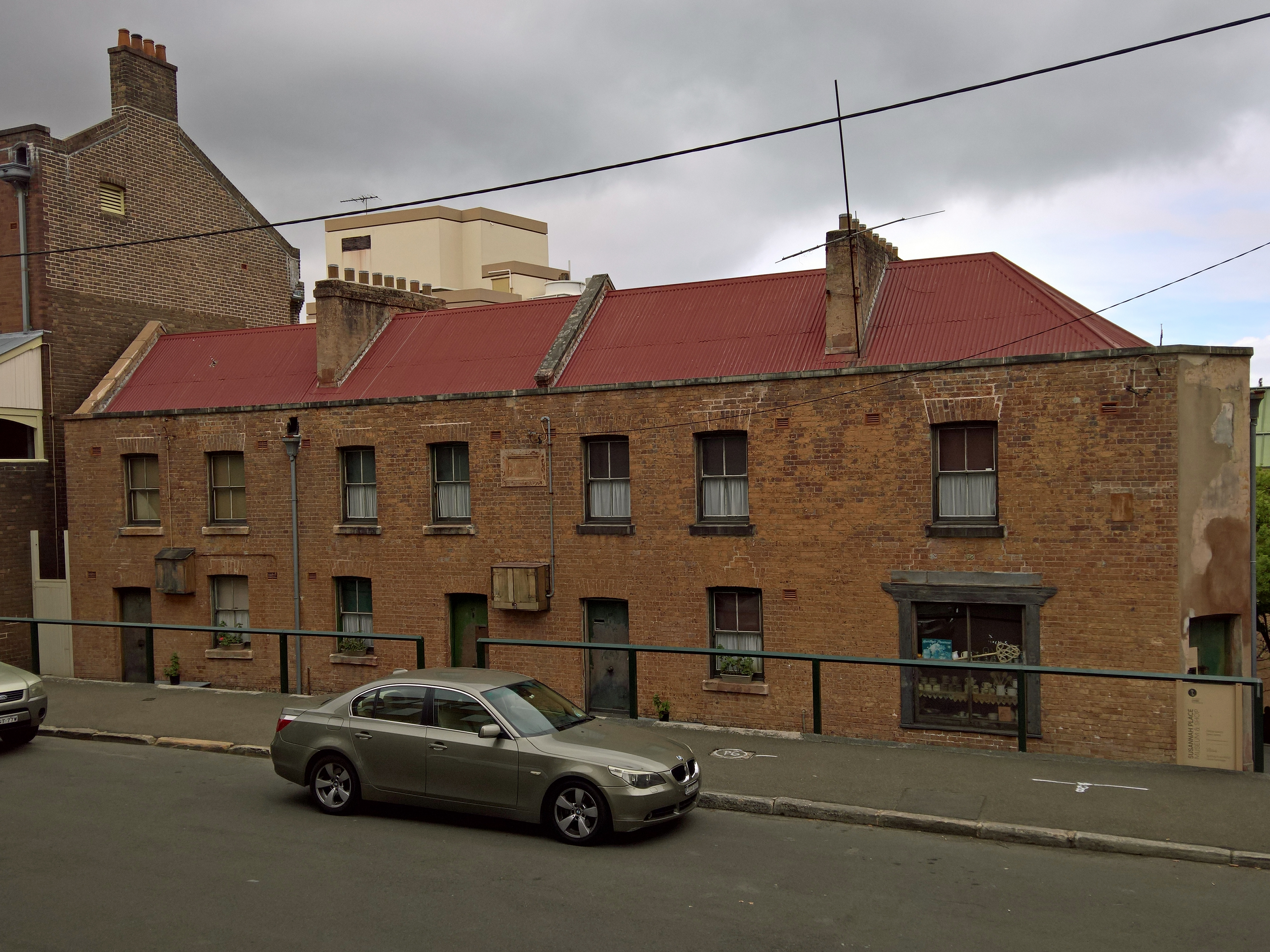 Front view of Susannah Place Museum